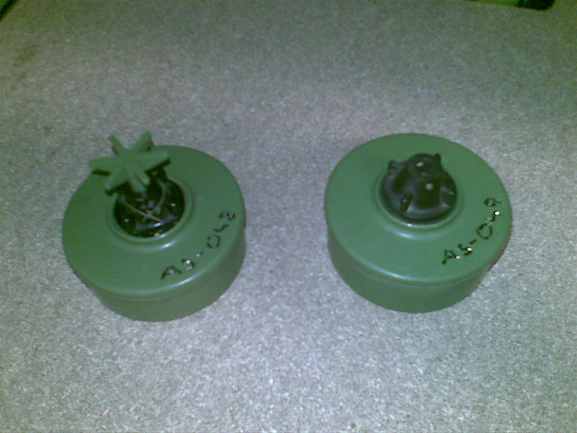 PMA-2 Yugoslavian blast antipersonnel mine PMA-2.